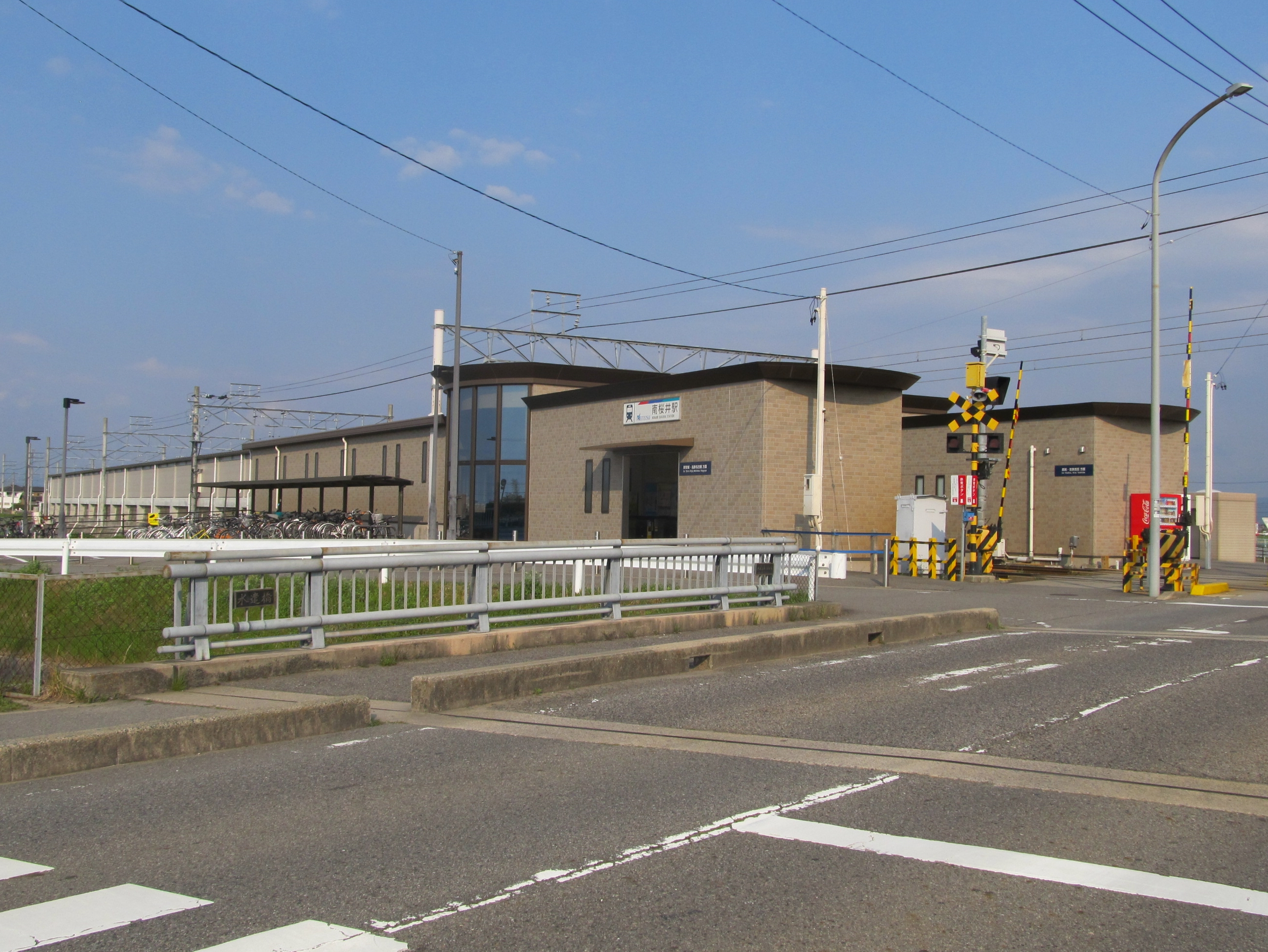 Nagoya Railroad Nishio Line Minami Sakurai Station Building